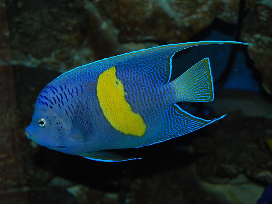 Yellowbar angelfish